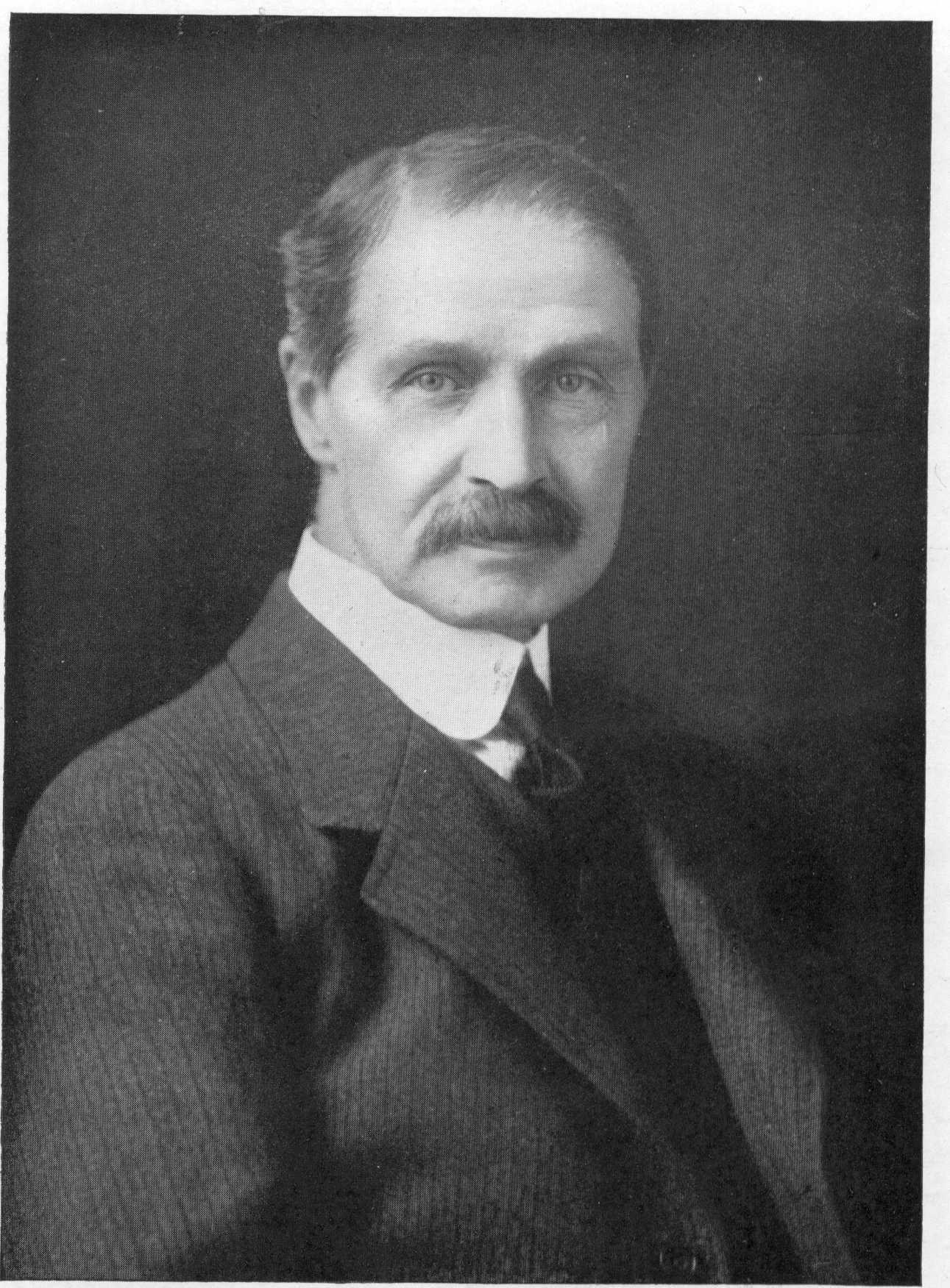 Portrait photograph of British Prime Minister Andrew Bonar Law by Elliott & Fry.